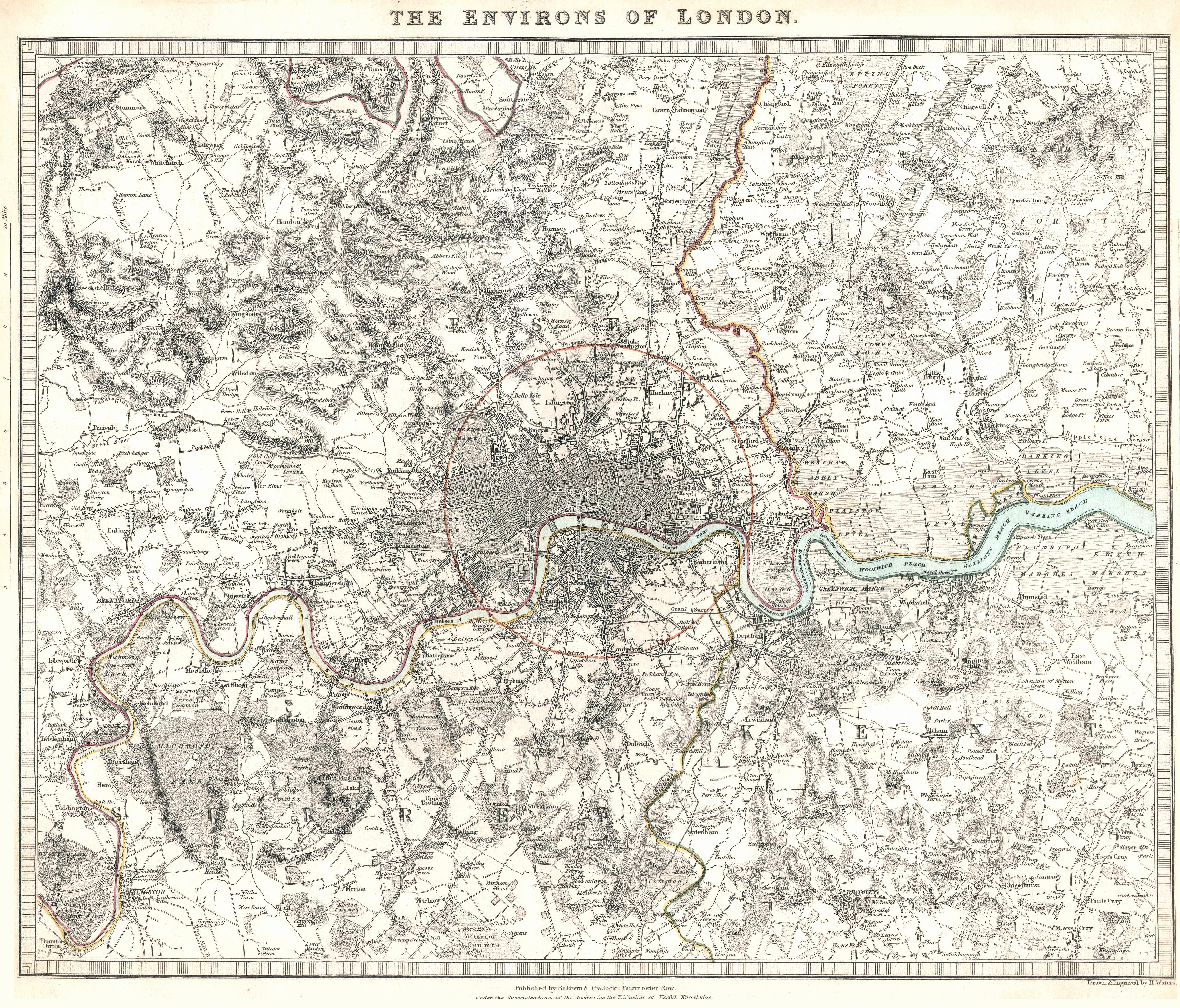 The Environs of London. Published by Baldwin & Cradock, Paternoster Row. Under the Superintendance of the Society for the Diffusion of Useful Knowledge. Drawn & Engraved by H. Waters. The red circle marks the “Extent of the Twopenny Post Delivery”.